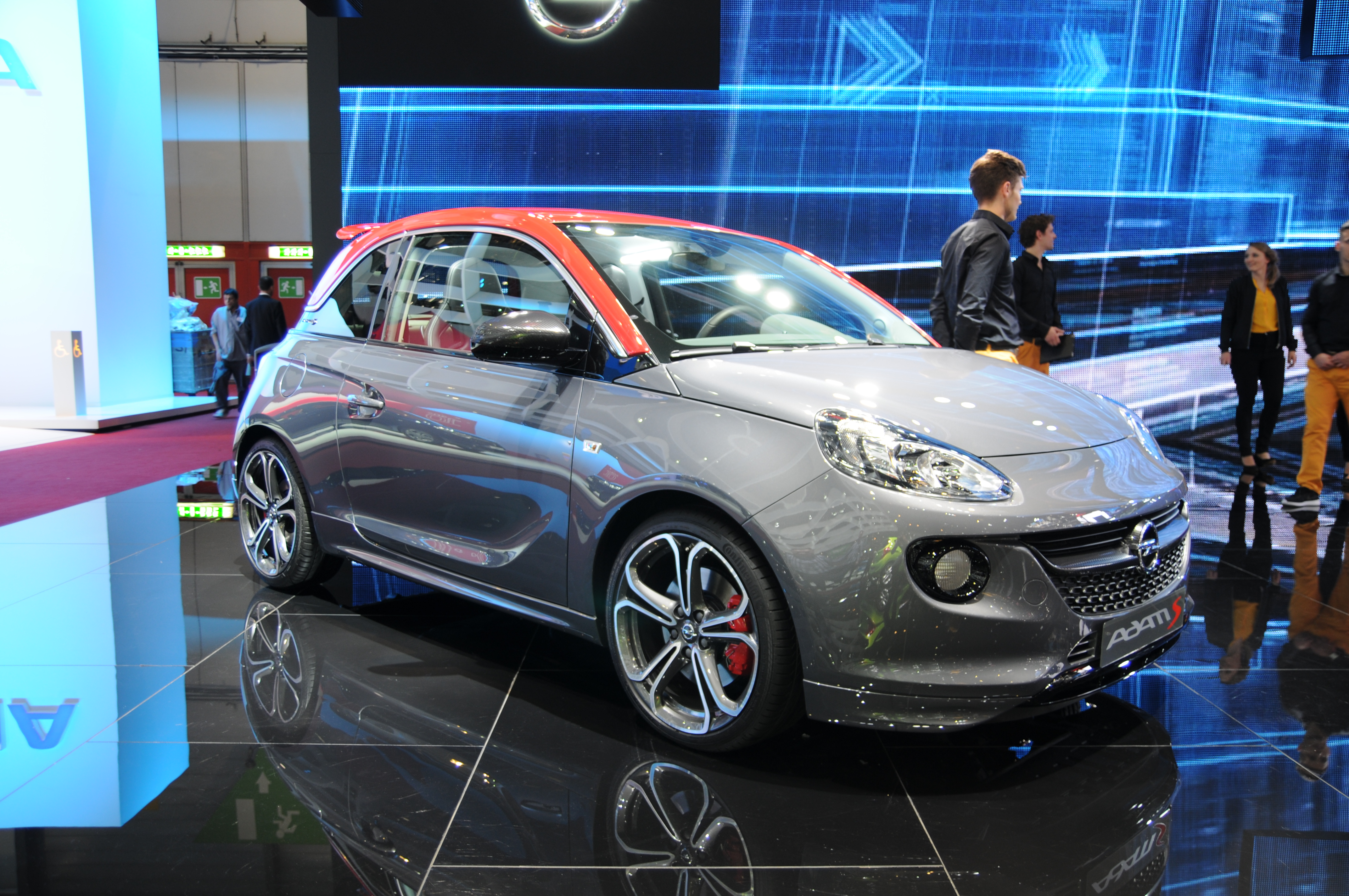 Geneva Motor Show 2015 (photo taken on the first press day)